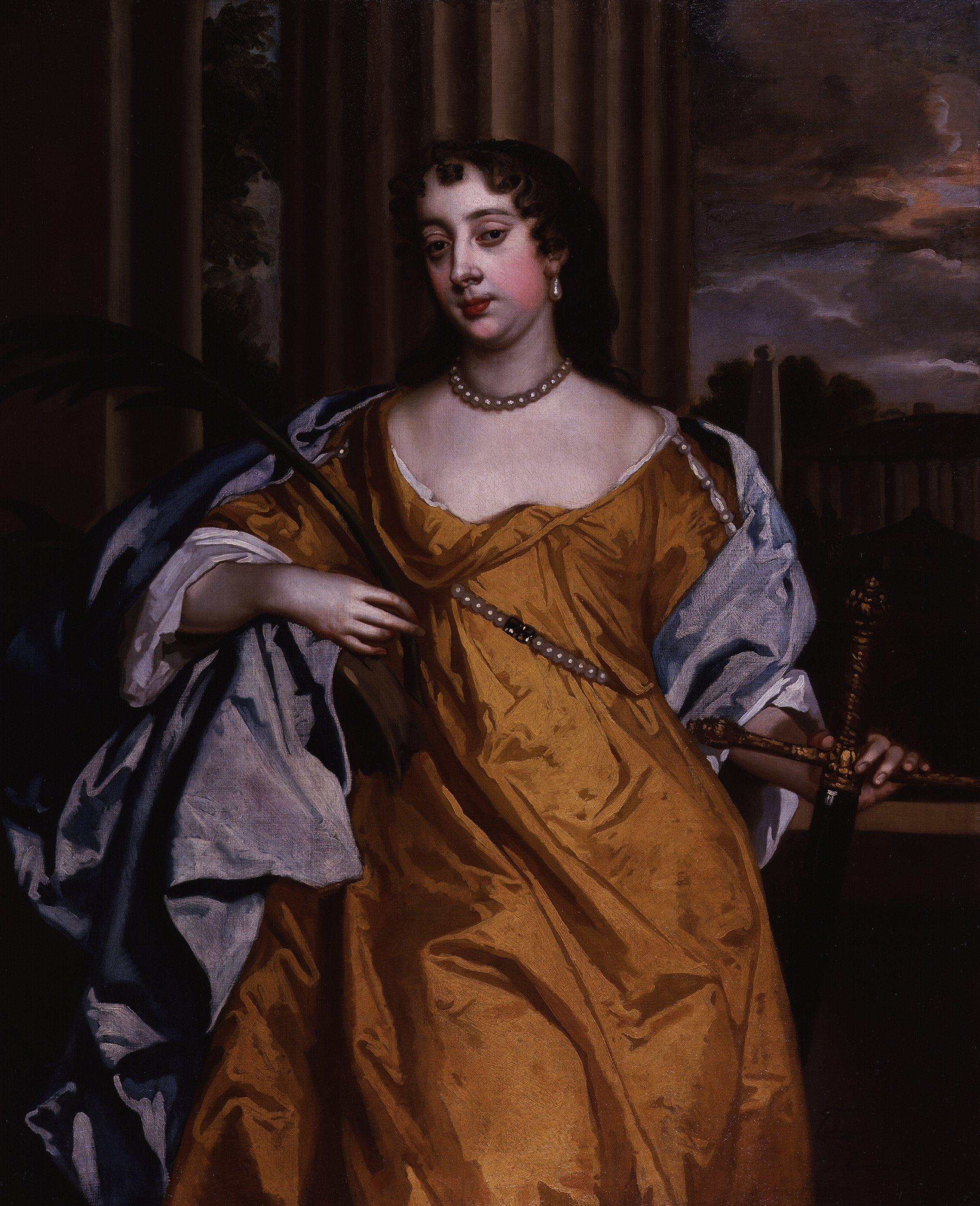 Barbara Palmer (née Villiers), Duchess of Cleveland